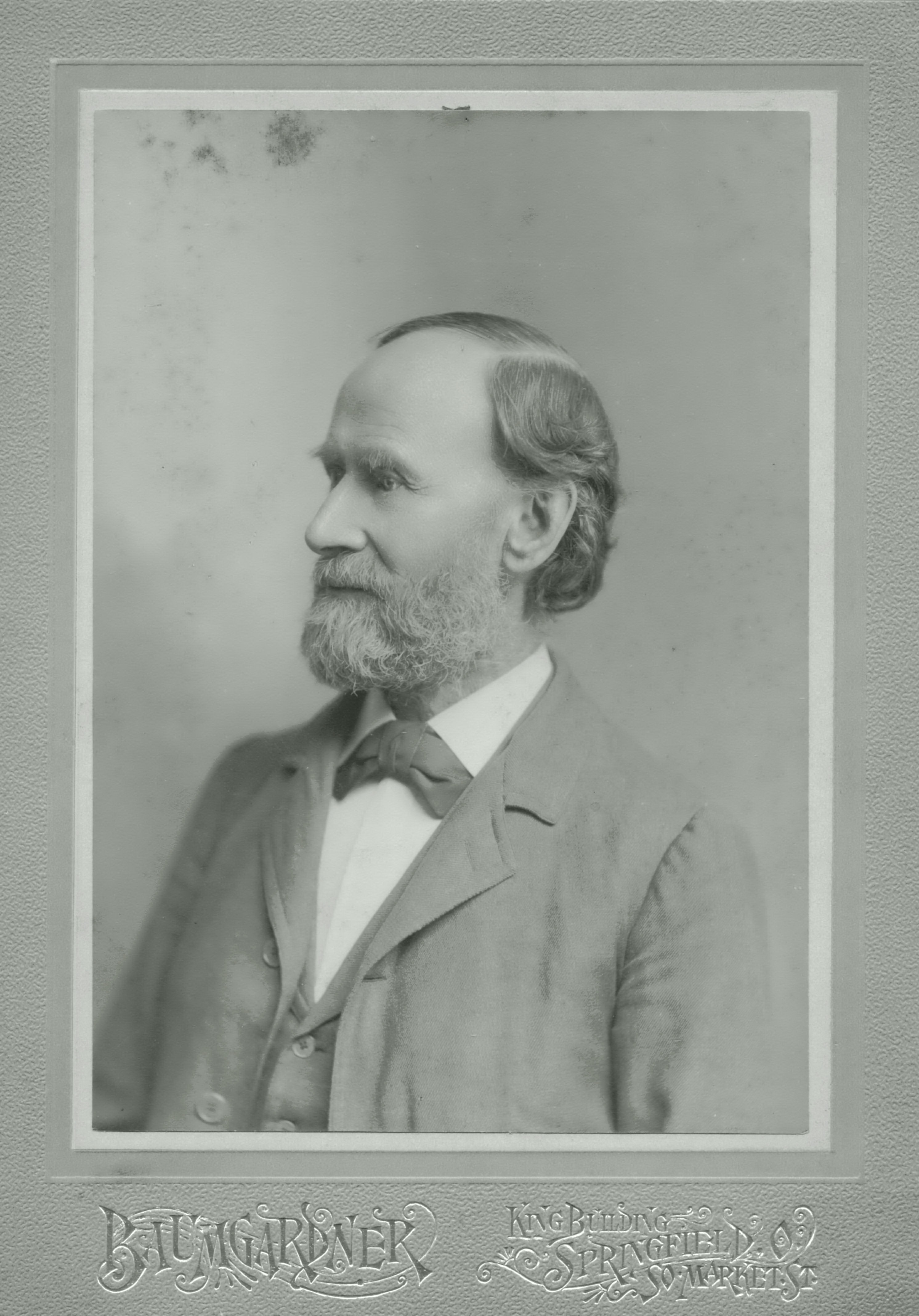 More than 100 year old photo